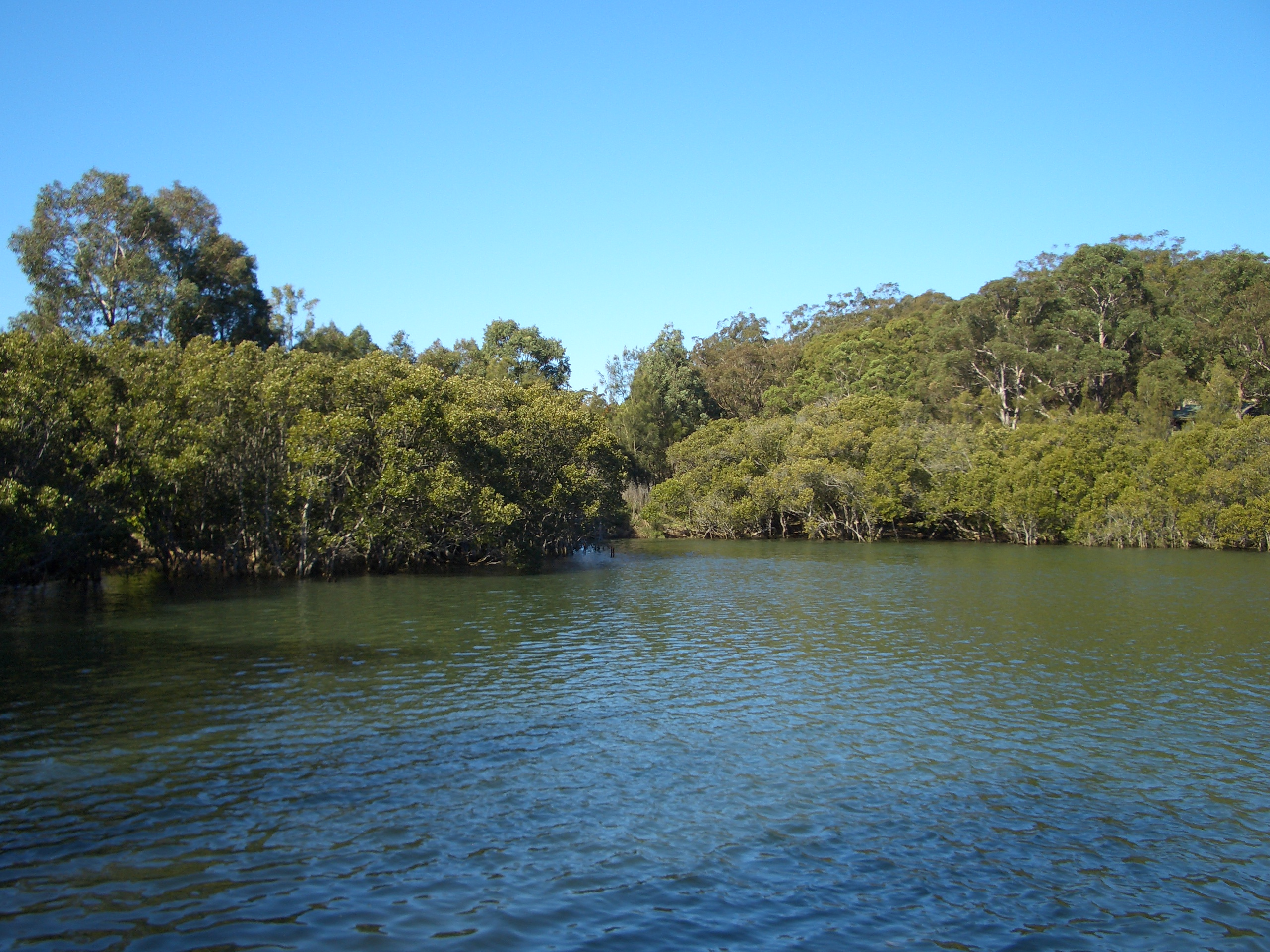 Hurstville Grove, Sydney, Australia. I took this photo on the 14th August 2006. J Bar 06:23, 17 August 2006 (UTC)